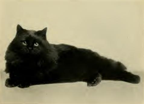 "Mrs. A. E. Montgomery's imported black male. Johnnie has won many Firsts, Cups and Medals at New York, Chicago, Buffalo, Toronto and Hartford, winning for best cat in the show on two occasions. Mrs. Montgomery should, with her new acquisition, breed many winners in her cattery at 1133 Green Street, San Francisco, California."